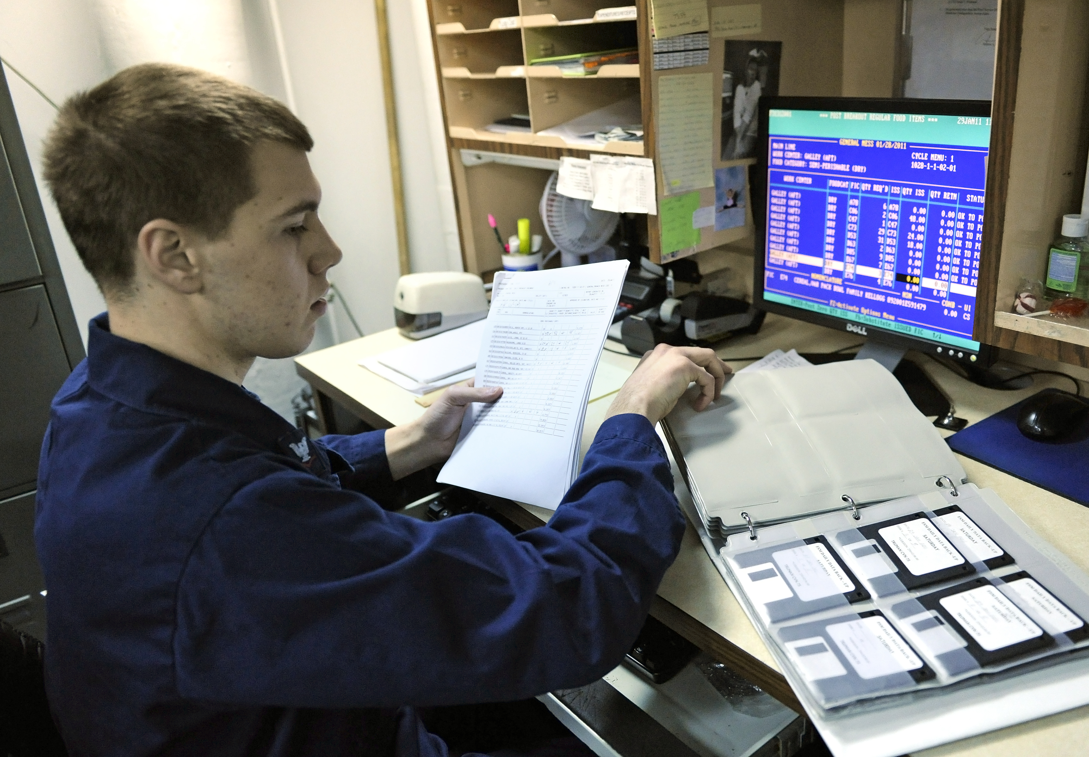 ATLANTIC OCEAN, (Jan. 29, 2011) Culinary Specialist 3rd Class John Smith uses the existing DOS-based food service management system aboard the aircraft carrier USS Harry S. Truman (CVN 75). The Office of Naval Research and Tech Solutions funded the creation of new modernized food service management software currently being piloted on several surface ships. Harry S. Truman is scheduled to receive the software in March. The new modular software design caters to each location's specific needs, provides menu planning tools, recipes and nutritional analysis, budget information and inventory tracking. (U.S. Navy photo by John F. Williams/Released)